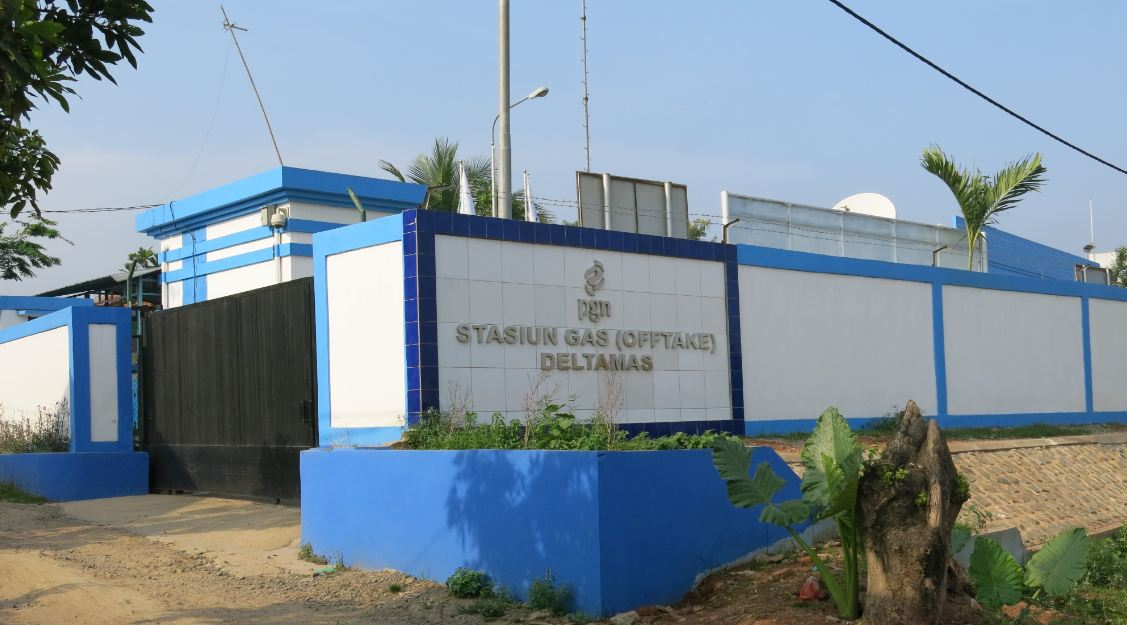 Indonesian state-owned gas distribution company PGN facility